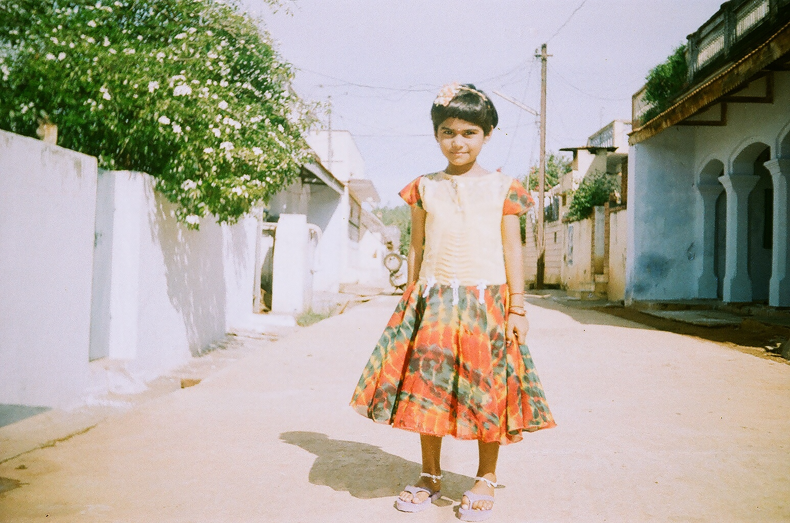 Indian Girl